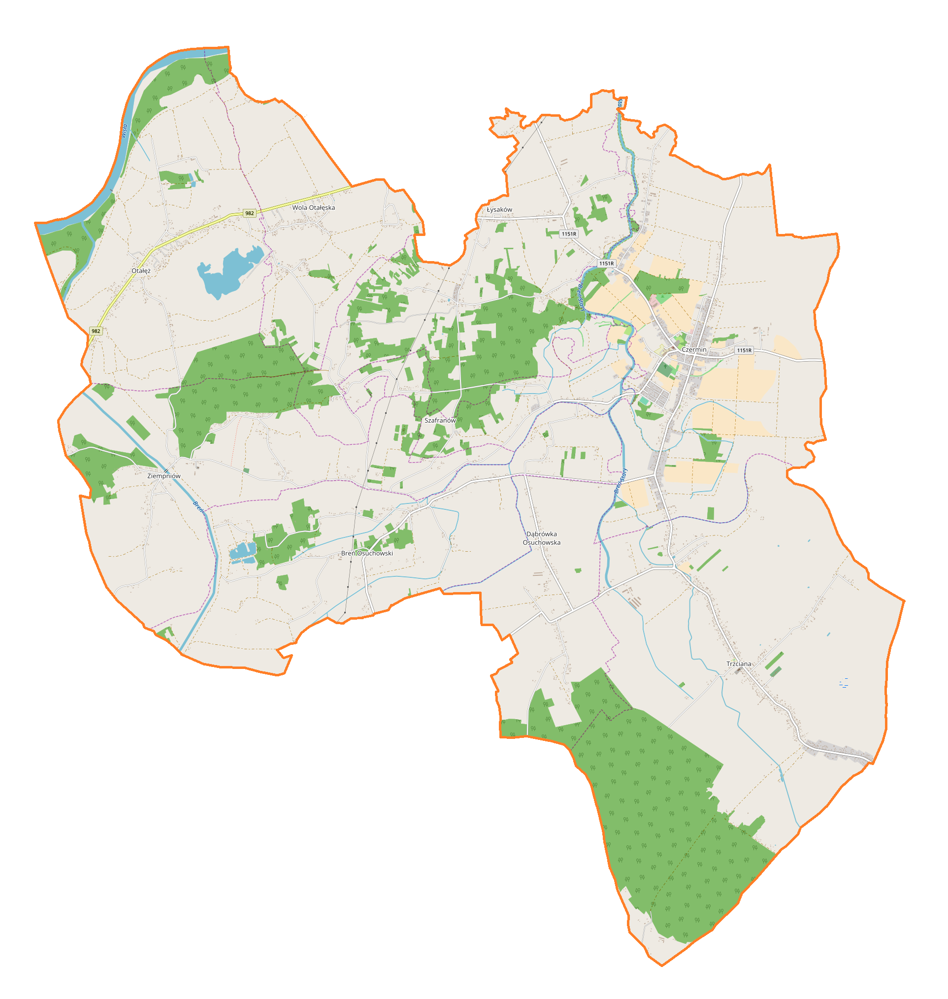 Location map